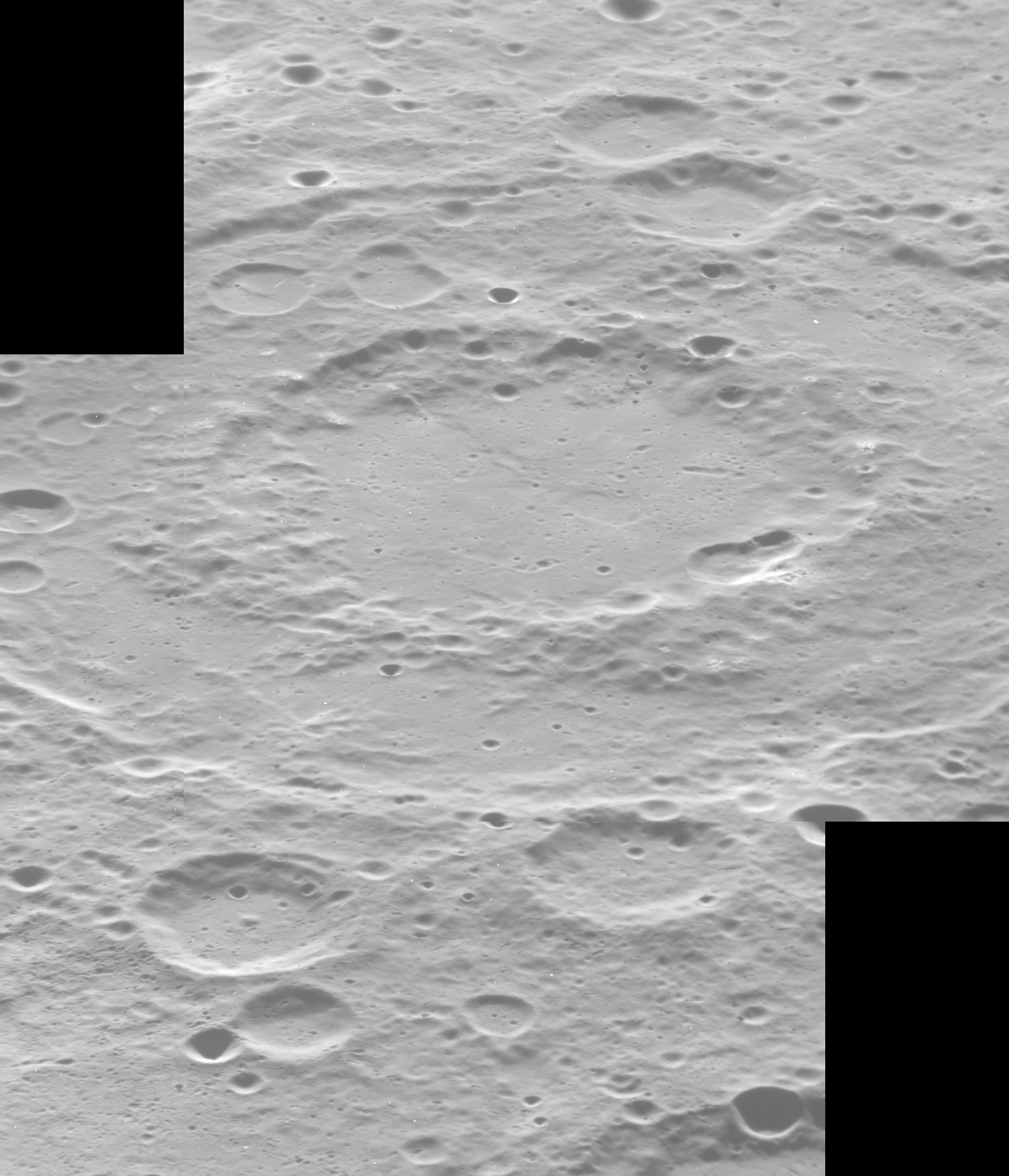 Oblique view of Chekhov crater on Mercury. MESSENGER Narrow Angle Camera mosaic. North is at upper left. Emission Angle: 61.5 Incidence Angle: 67.1 Latitude: -36.3 Longitude: 299.4 Phase Angle: 128.6